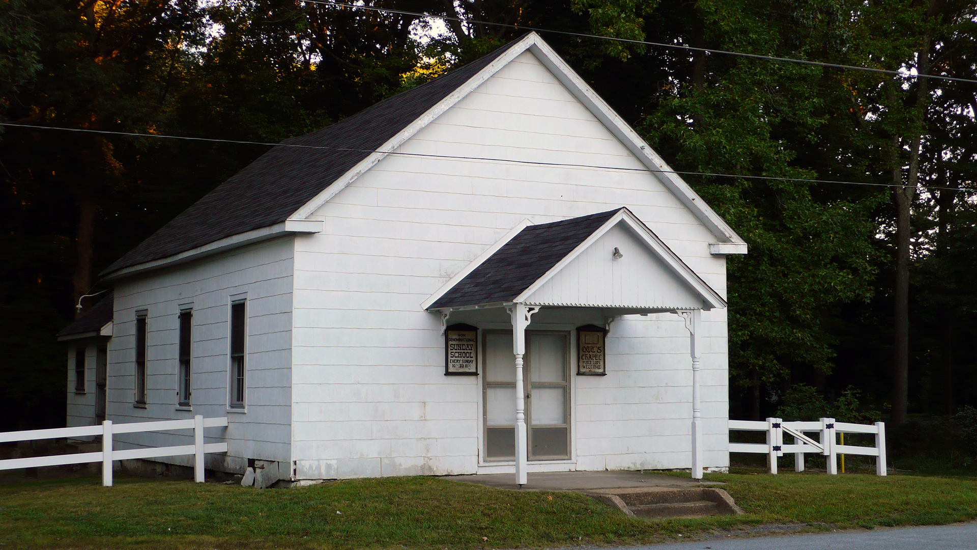 Ott's Chapel